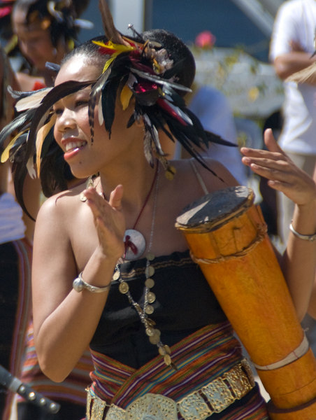 Traditional Dancer